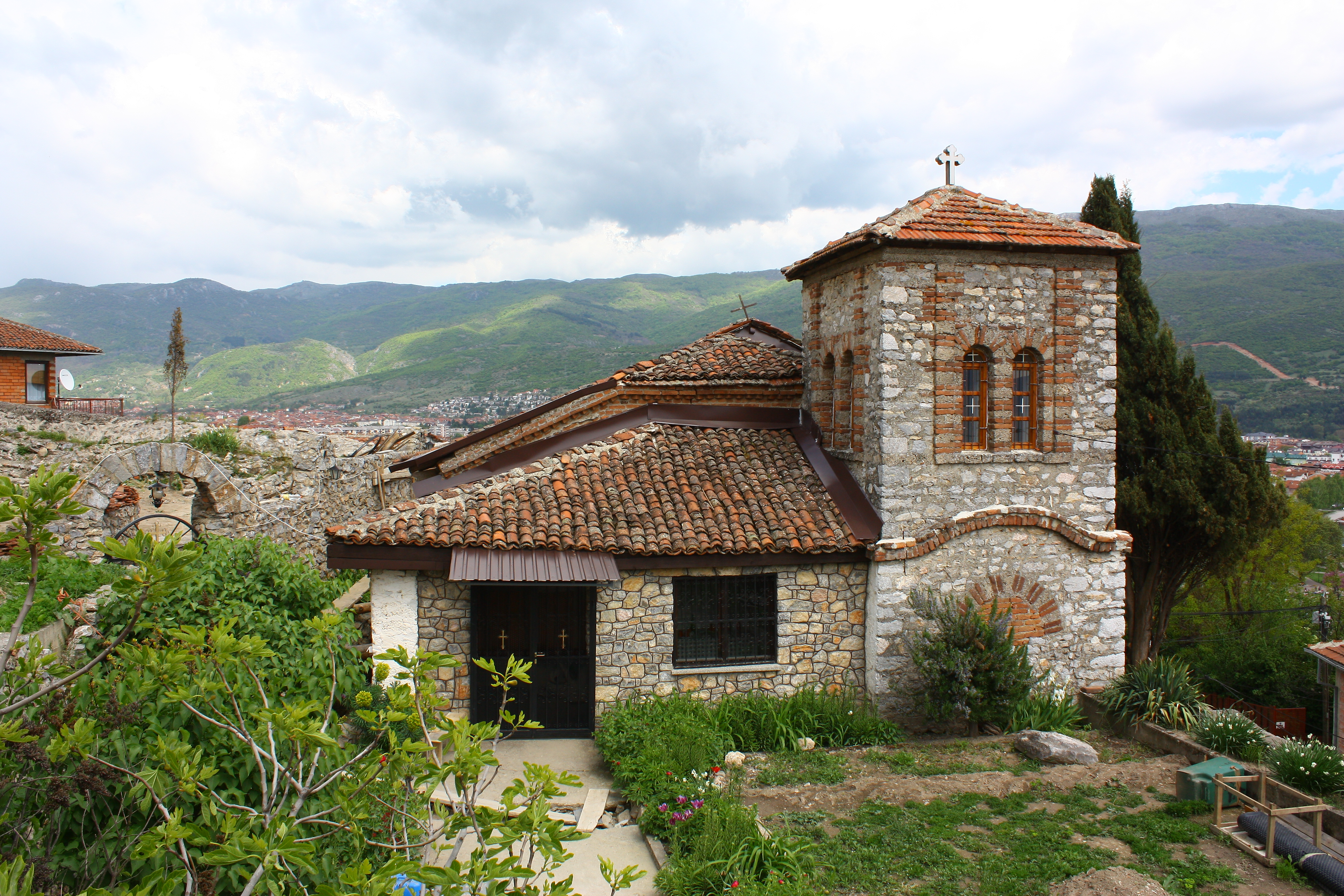 St. Mother of God Čelnica Church in Ohrid, Macedonia